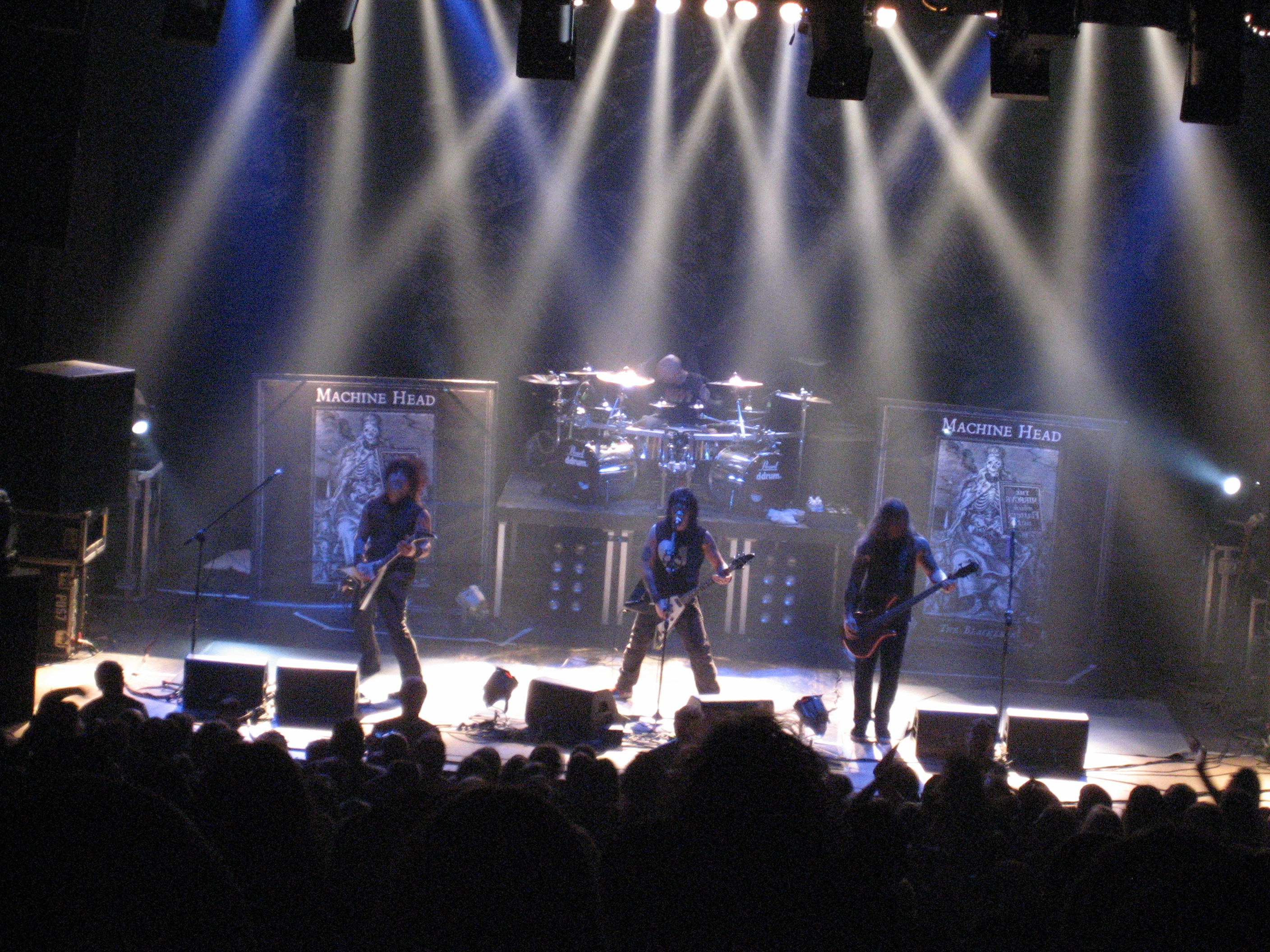 Machine Head live